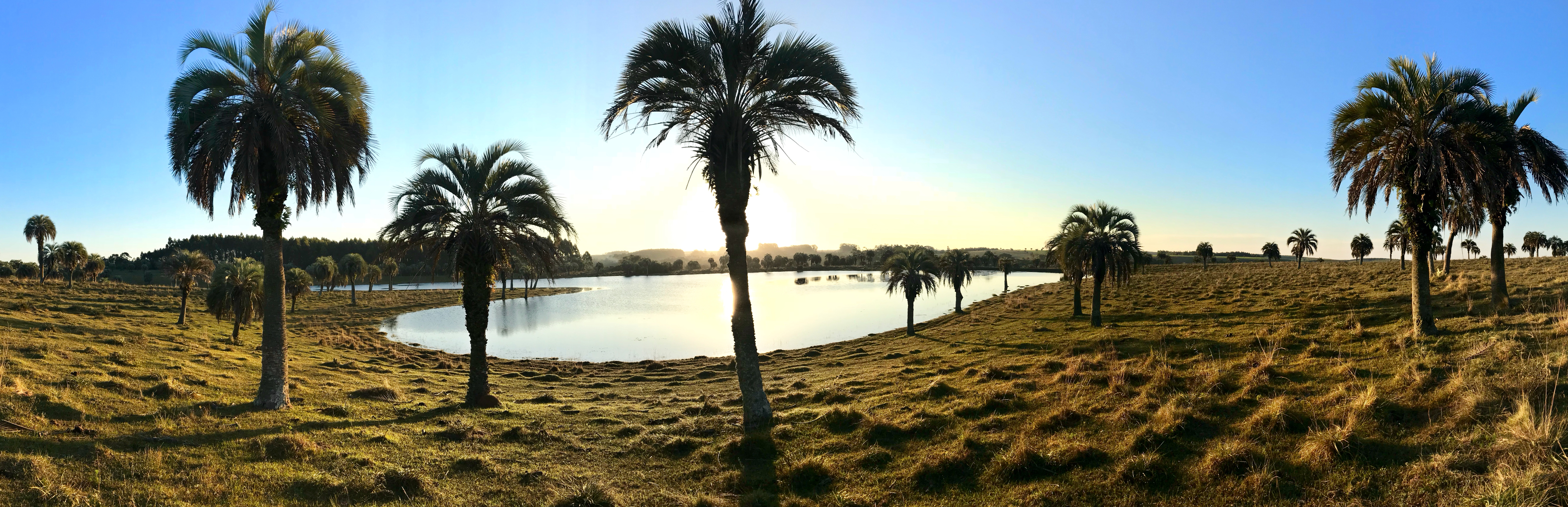 Butia capitata, commonly known for pindopalm, is a specie of palmtree of South America. The bioma in wich it is in has at least fifty endangered species.